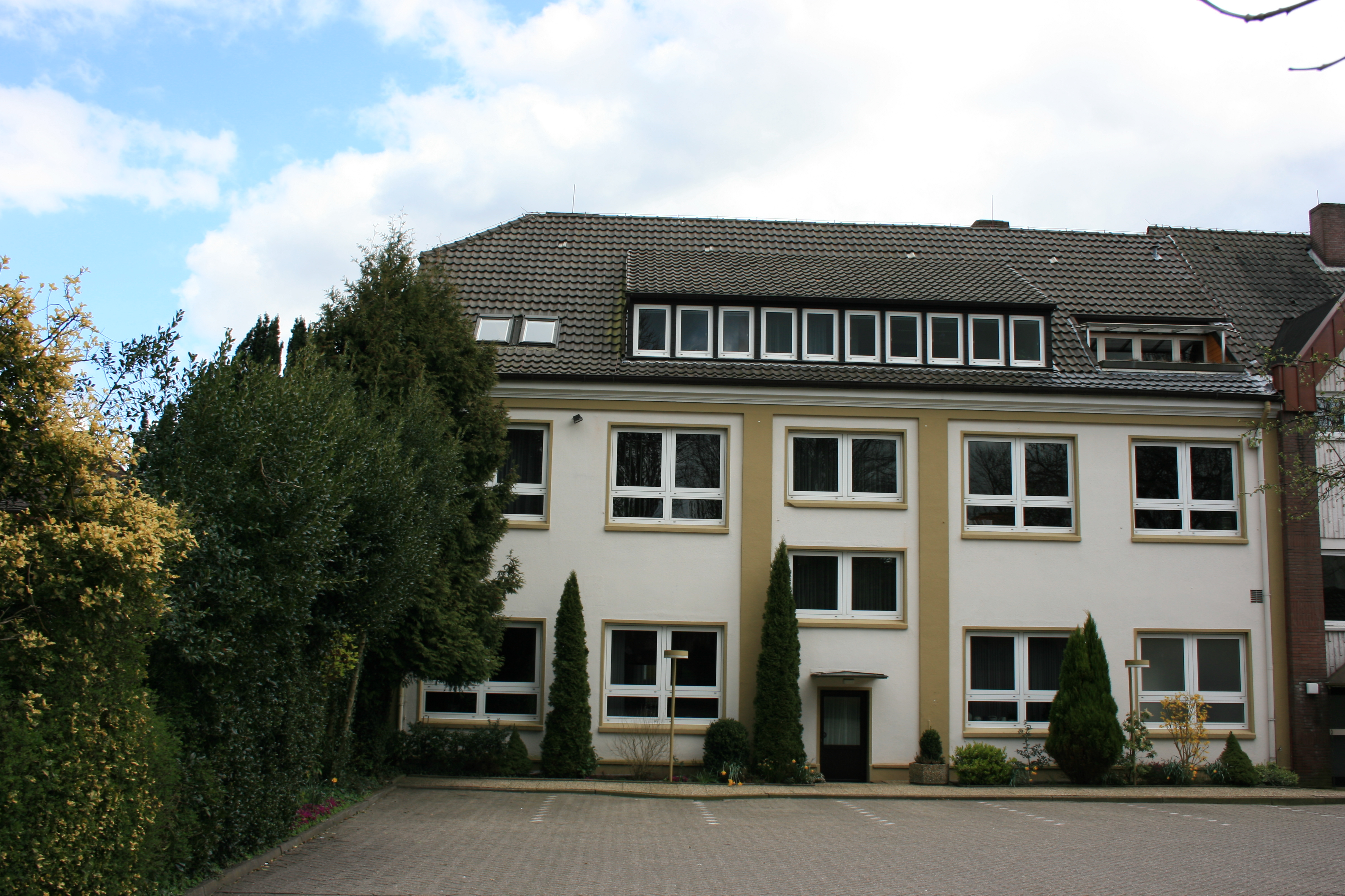 Jewish Cemeteries in East Frisia, former jewish school in Aurich